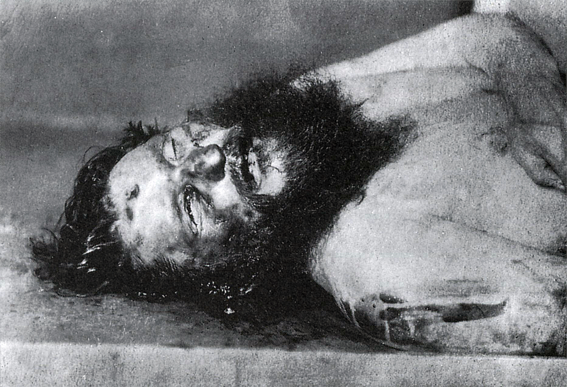 Picture of the murdered Rasputin.